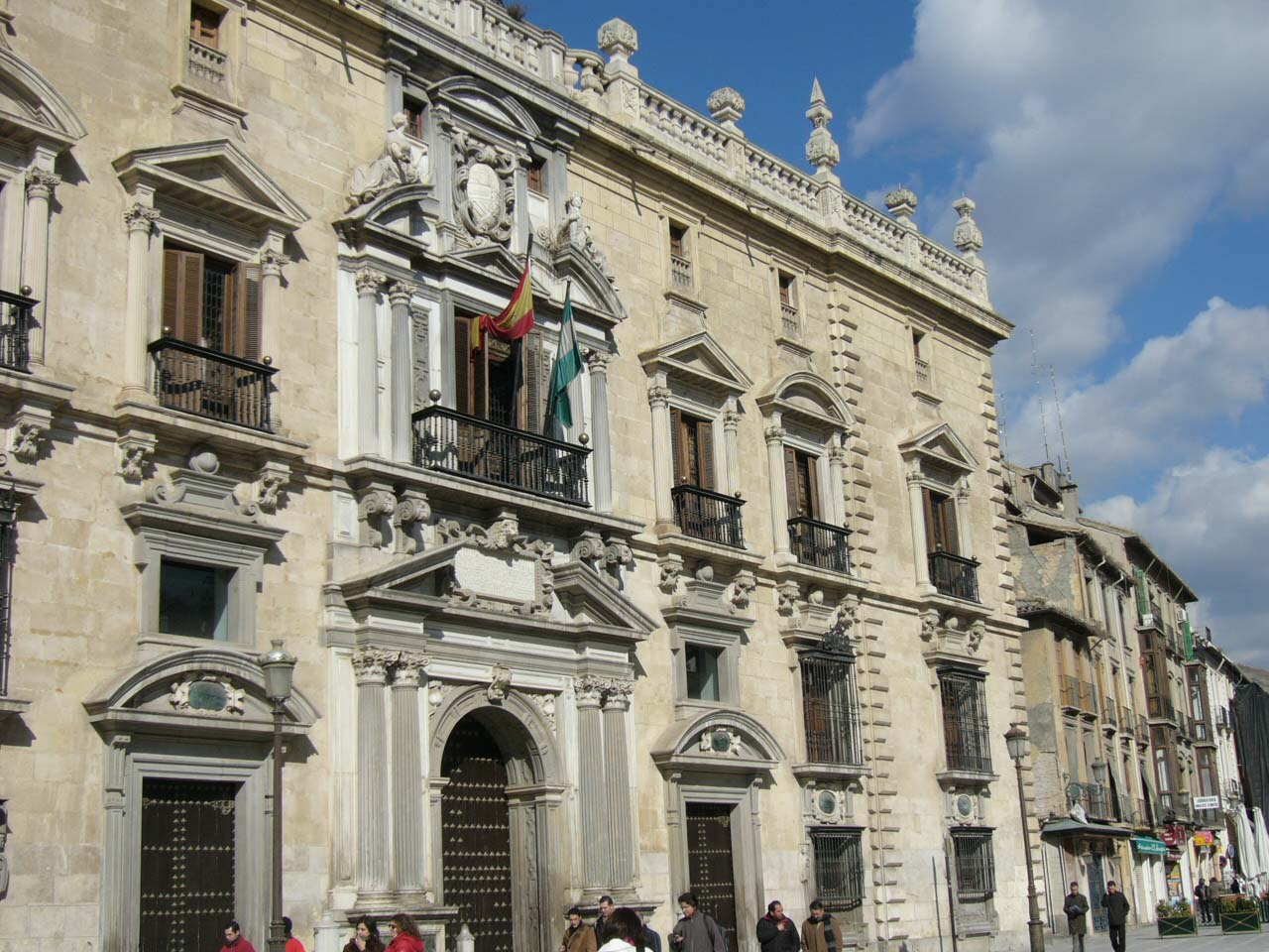 Andalucia High Court, in the center of the city.